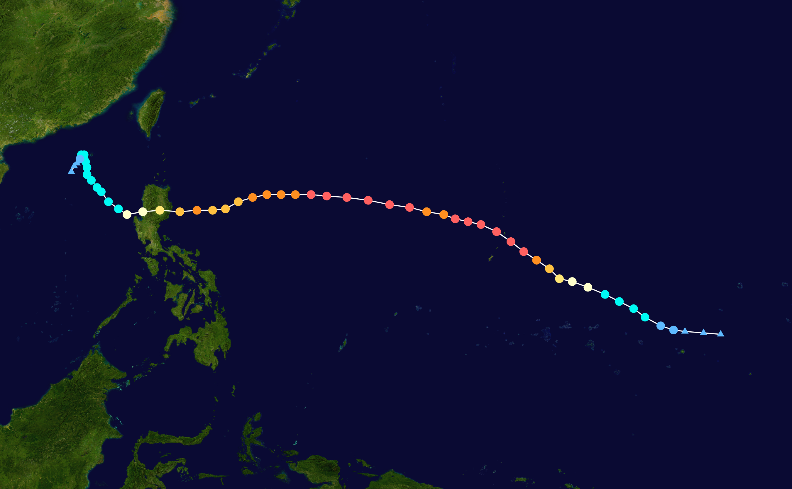 Track map of Typhoon Yutu of the 2018 Pacific typhoon season. The points show the location of the storm at 6-hour intervals. The colour represents the storm's maximum sustained wind speeds as classified in the Saffir–Simpson scale (see below), and the shape of the data points represent the nature of the storm, according to the legend below. Saffir–Simpson scale Tropical depression≤38 mph≤62 km/h Category 3111–129 mph178–208 km/h Tropical storm39–73 mph63–118 km/h Category 4130–156 mph209–251 km/h Category 174–95 mph119–153 km/h Category 5≥157 mph≥252 km/h Category 296–110 mph154–177 km/h Unknown Storm type Tropical cyclone Subtropical cyclone Extratropical cyclone / Remnant low / Tropical disturbance / Monsoon depression